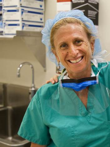 Dr. Elisa Rush Port, Cofounder and director of the Dubin Breast Center at The Mount Sinai Medical Center.